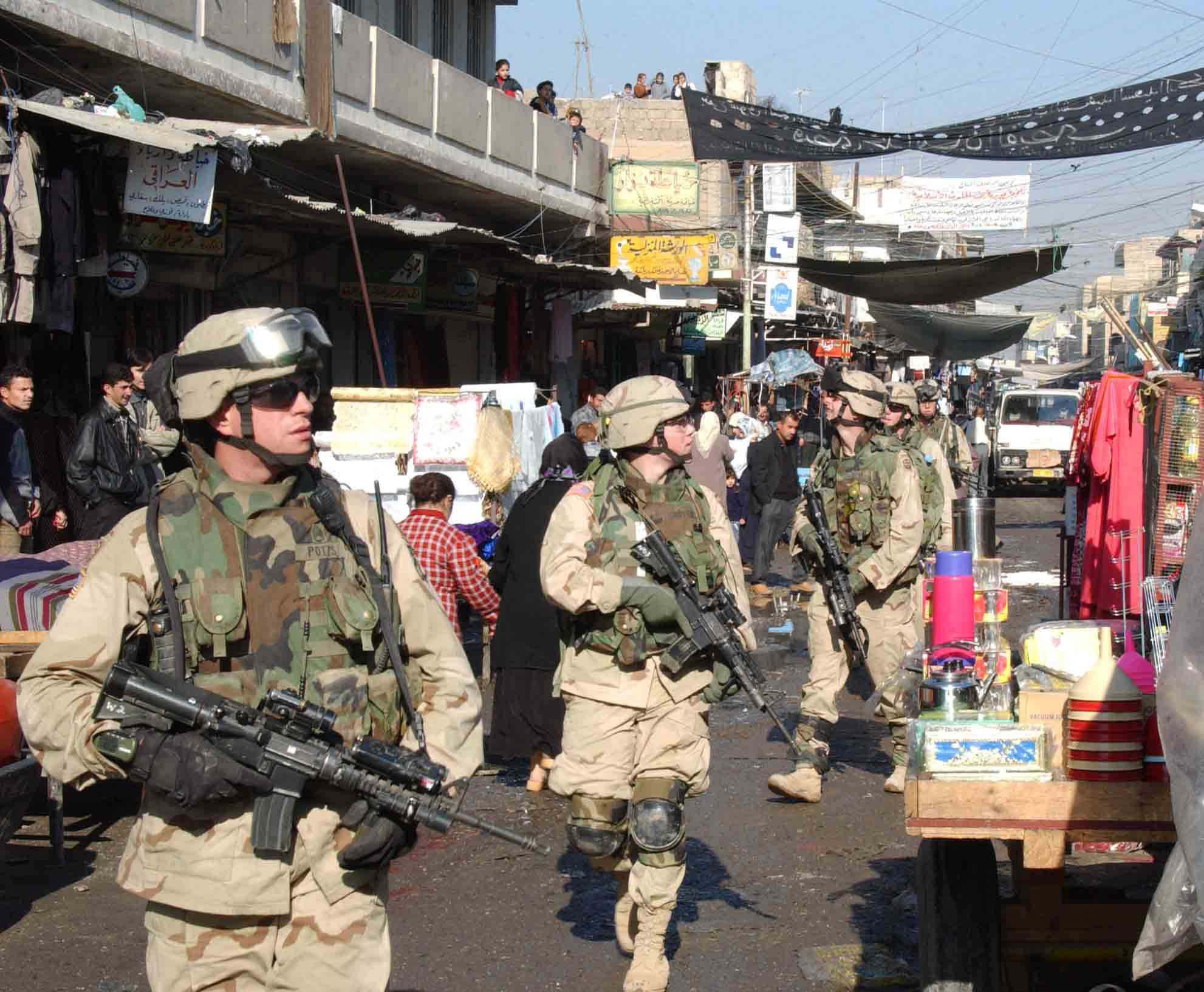 Paratroopers from the 325th Parachute Infantry Regiment, 82nd Airborne Division, patrol the Al Sudeek district of Mosul, Iraq in January 2005.